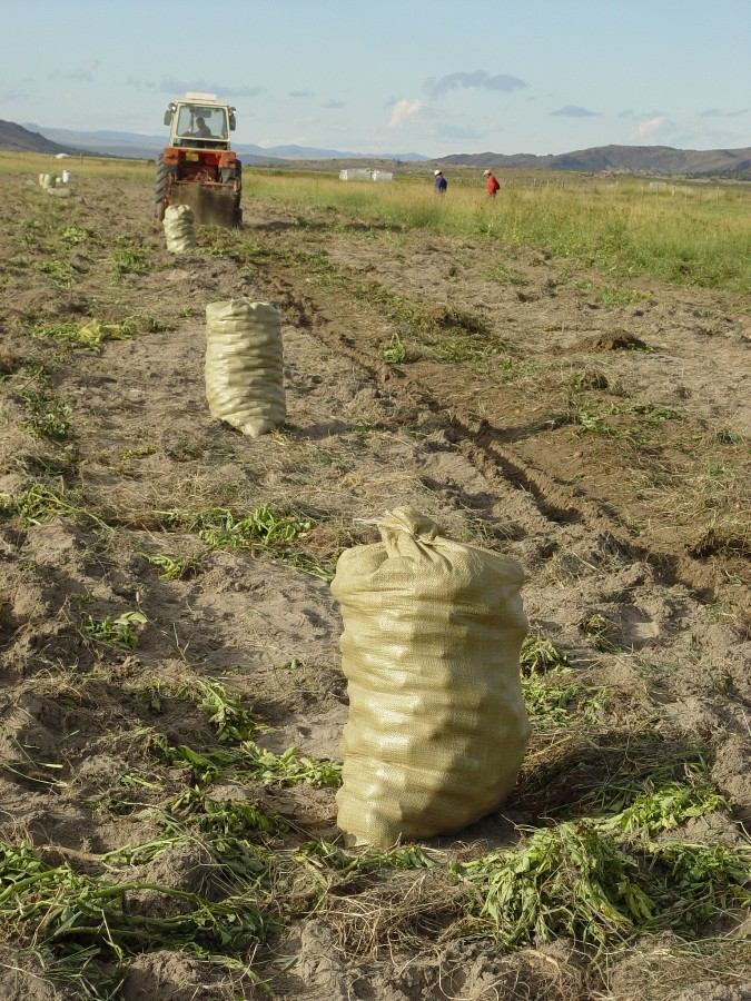 Mongolia: A herder group harvests potatoes using machinery.